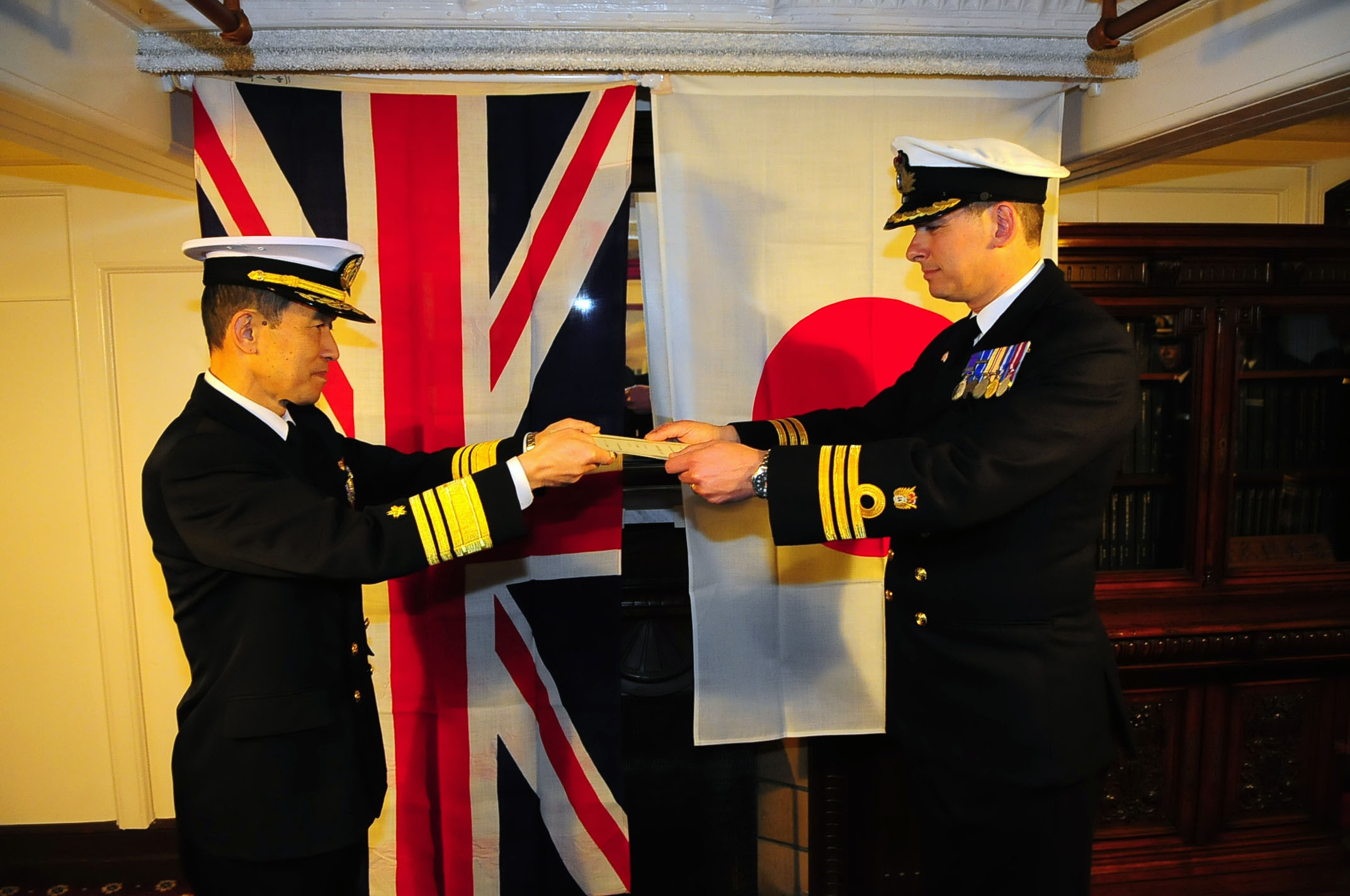 Japanese Maritime Self Defense Force (JMSDF) Vice Adm. Eiichi Funada, commander in chief, Self Defense Fleet, presents British Royal Navy Cmdr. Simon Staley with a letter of appointment as the Royal Navy liaison officer to the JMSDF recognizing British and Japanese cooperation in the Indo-Asia-Pacific region during a ceremony aboard the Japanese Battle Ship Mikasa Feb. 17, 2015. Staley is permanently assigned to the U.S. 7th Fleet staff and serves as the liaison officer to both the U.S. 7th Fleet and the JMSDF.